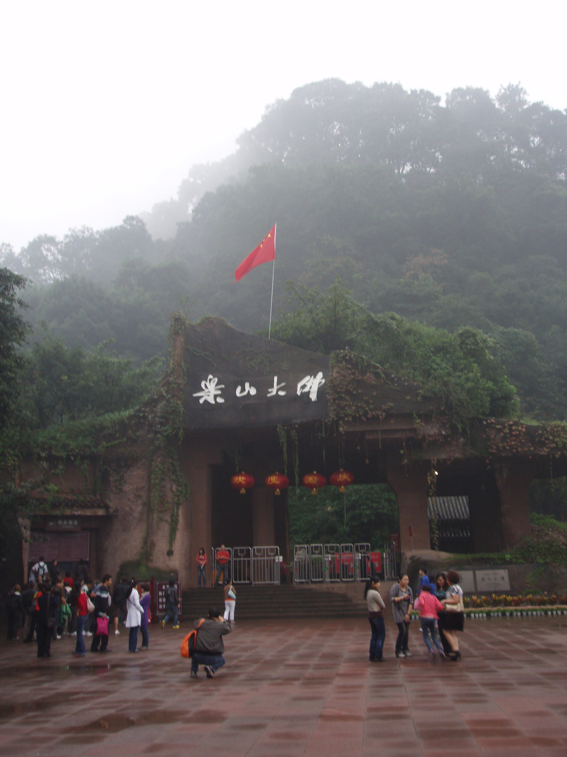 Entrance to visit Leshan Giant Buddha area in Sichuan,China